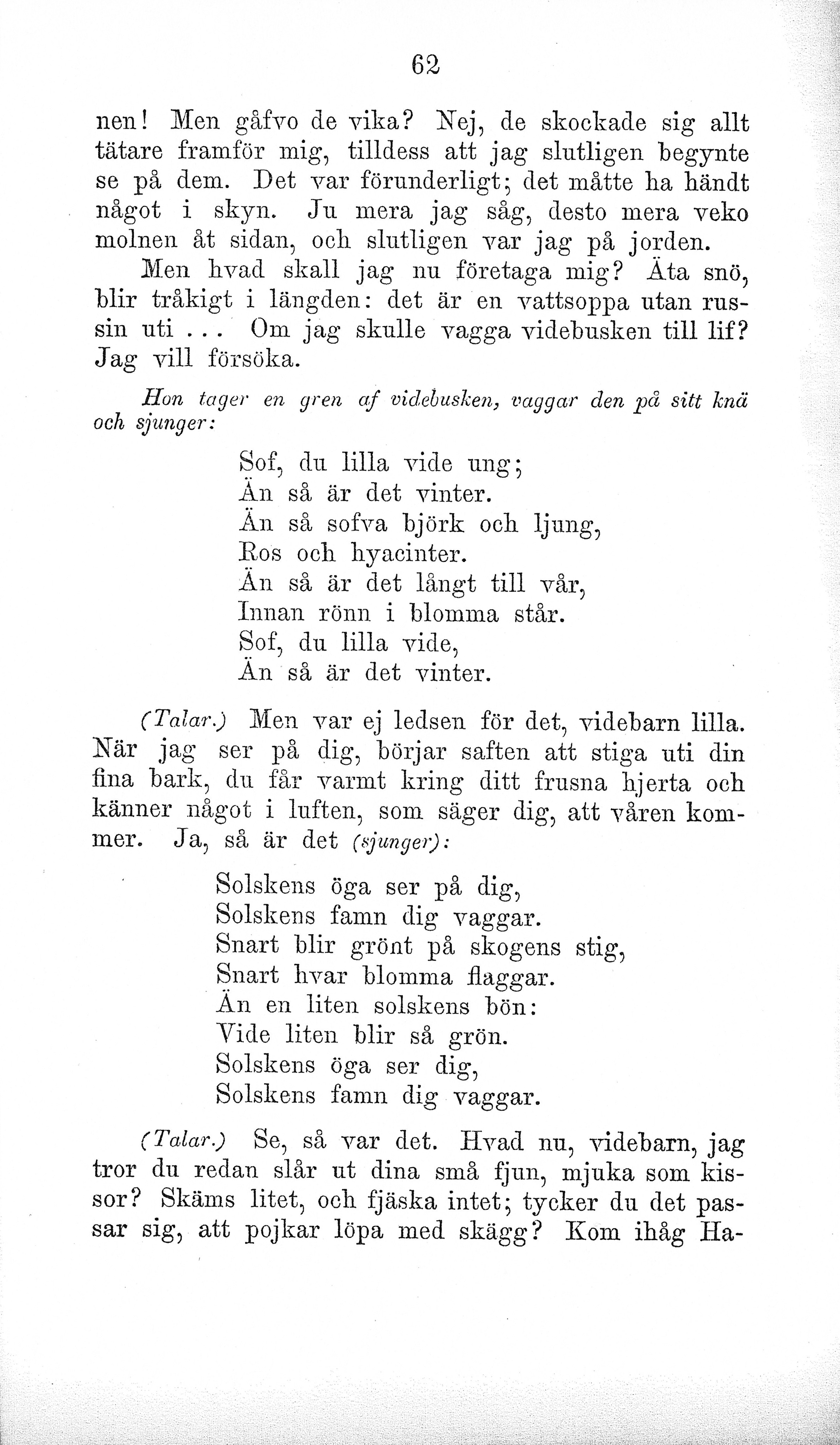 Book page from: Topelius, Zacharias: Läsning för barn. 4, Lekar, visor och sagor, Edlund, Helsingfors 1871, sid. 62.